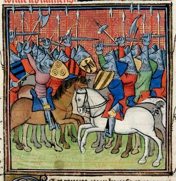 Robert d'Artois battling against the Flemish